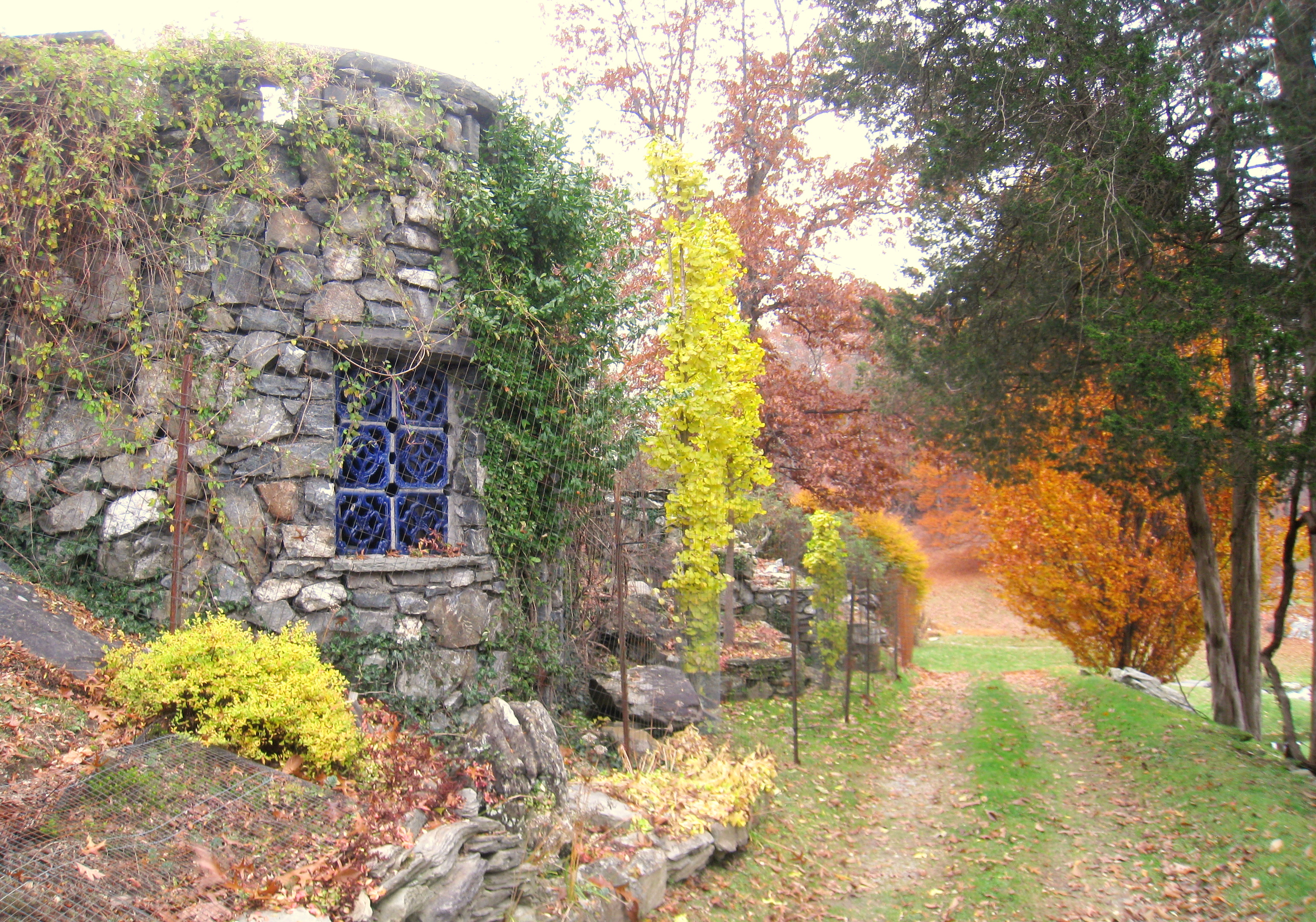 Innisfree Garden, Millbrook, New York, USA.